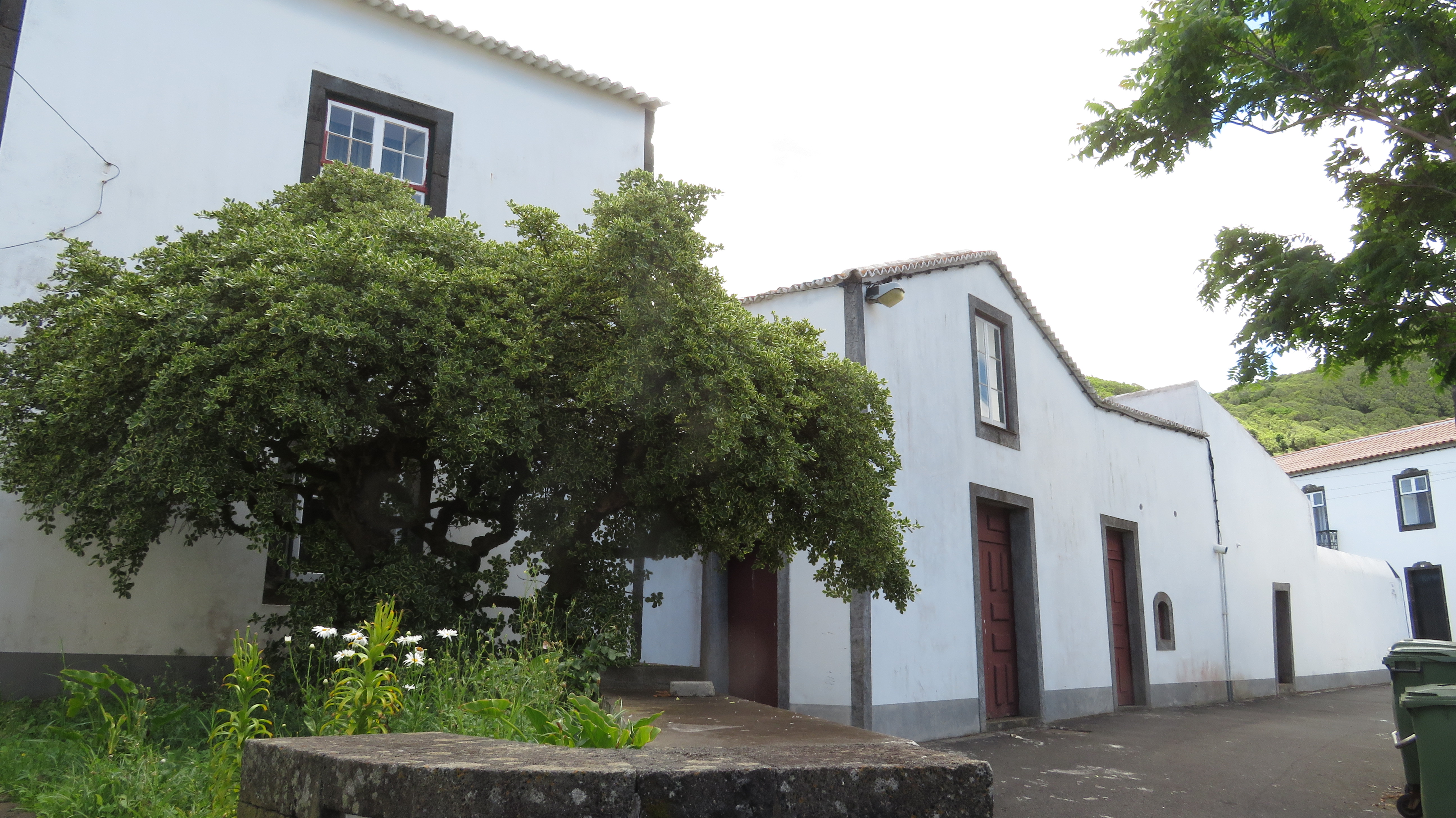 Former Monastery "Ermida de S. Pedro" in Santa Cruz da Graciosa, Ilha Graciosa, Acores, Portugal.